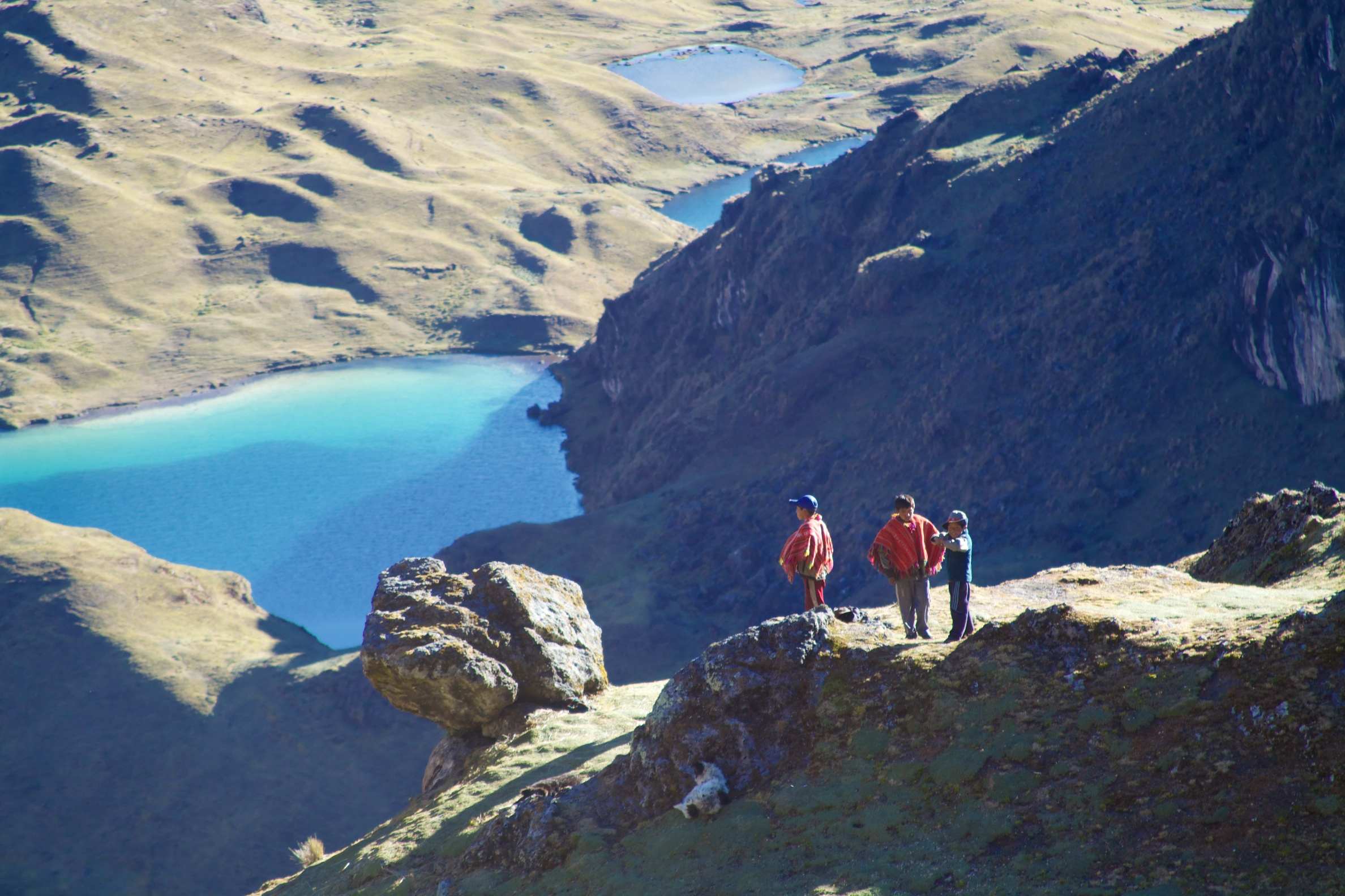 Rural herdboys, in their traditional red-woven ponchos, taking in the vista as they mind their grazing herd of alpaca & llama.